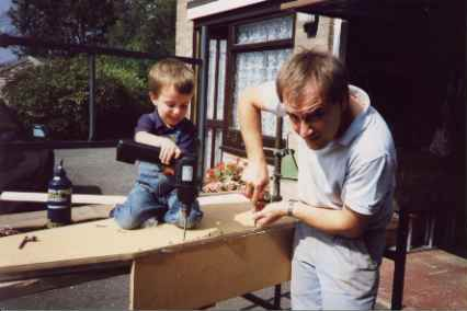 Locust Seven - Body being built Scan of original photograph taken by Peter Wannop